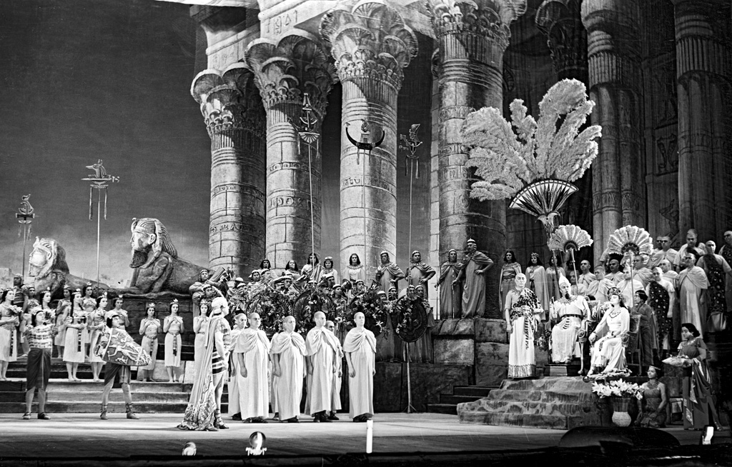 “Scene from Giuseppe Verdi's Aida opera”. A scene from Giuseppe Verdi's Aida opera. The USSR Bolshoi Theater (currently the State Academic Opera and Ballet Theater of Russia).